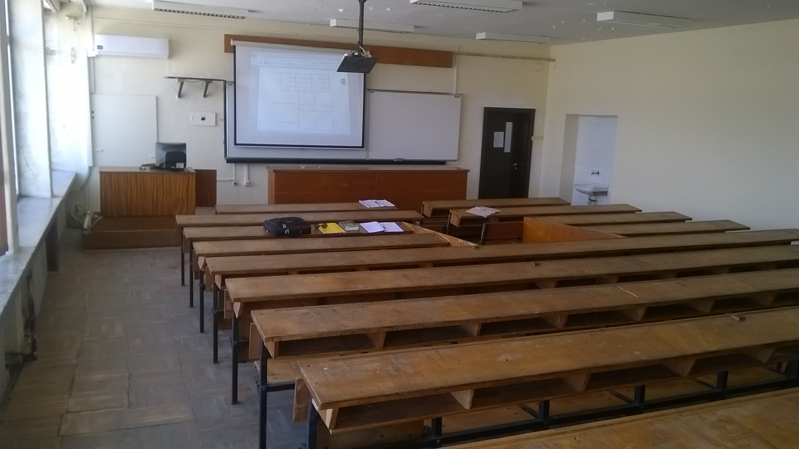 Lecture hall in Electrical faculty in the University